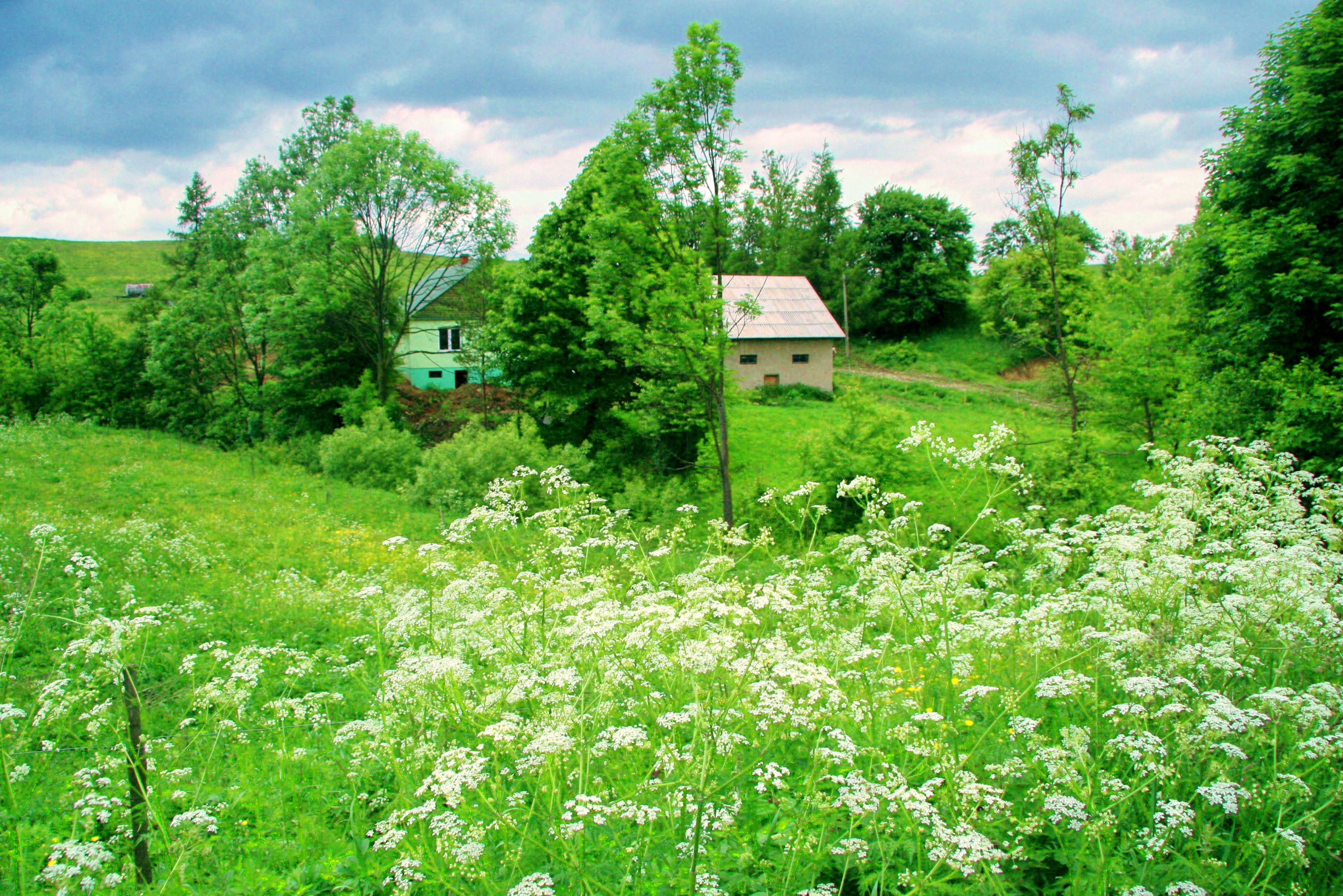 View of houses in across meadow in Tokarnia, Poland